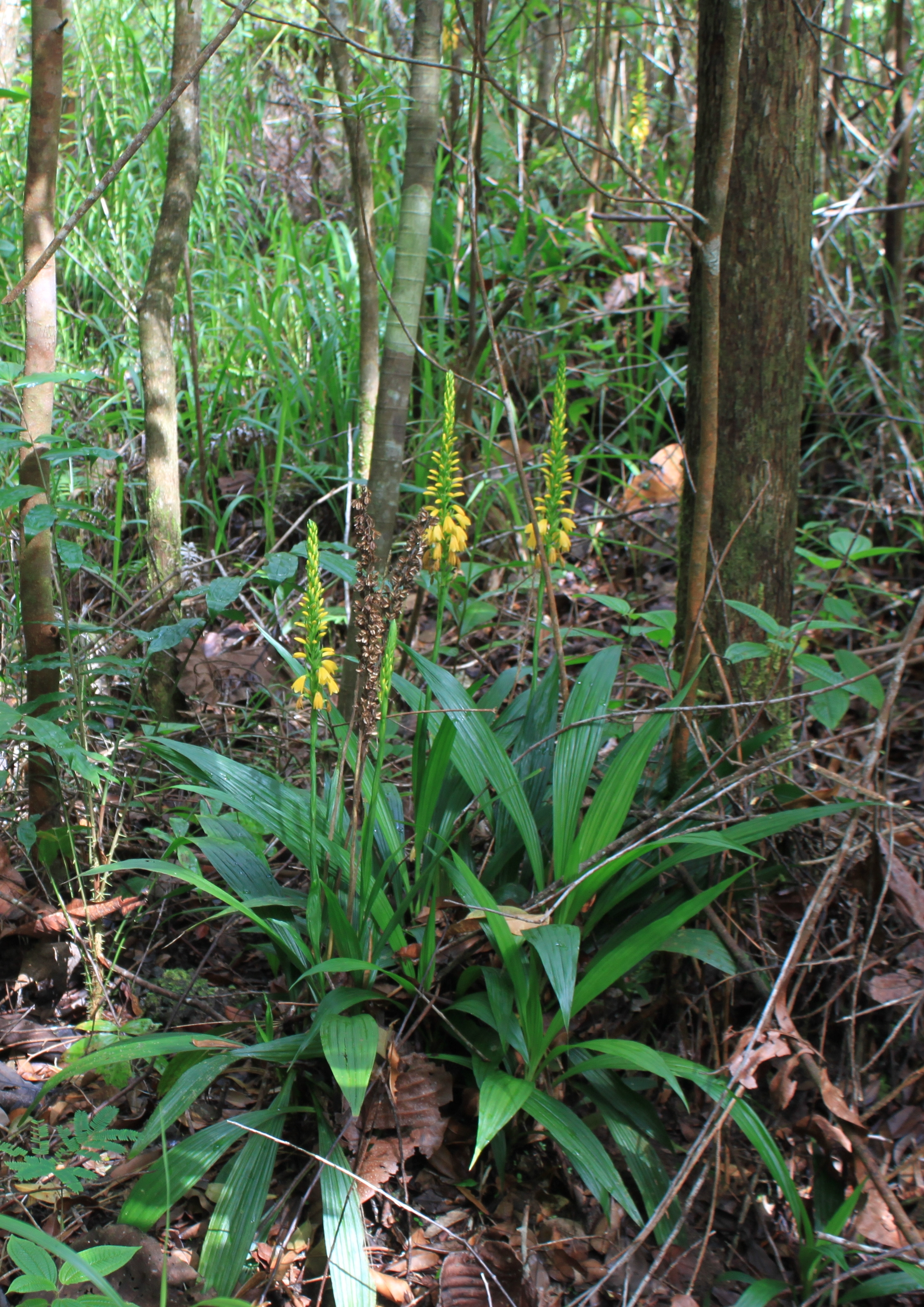 Neuwiedia veratrifolia – Mt Serapi/Mt Kayan, Sarawak, Malaysian Borneo